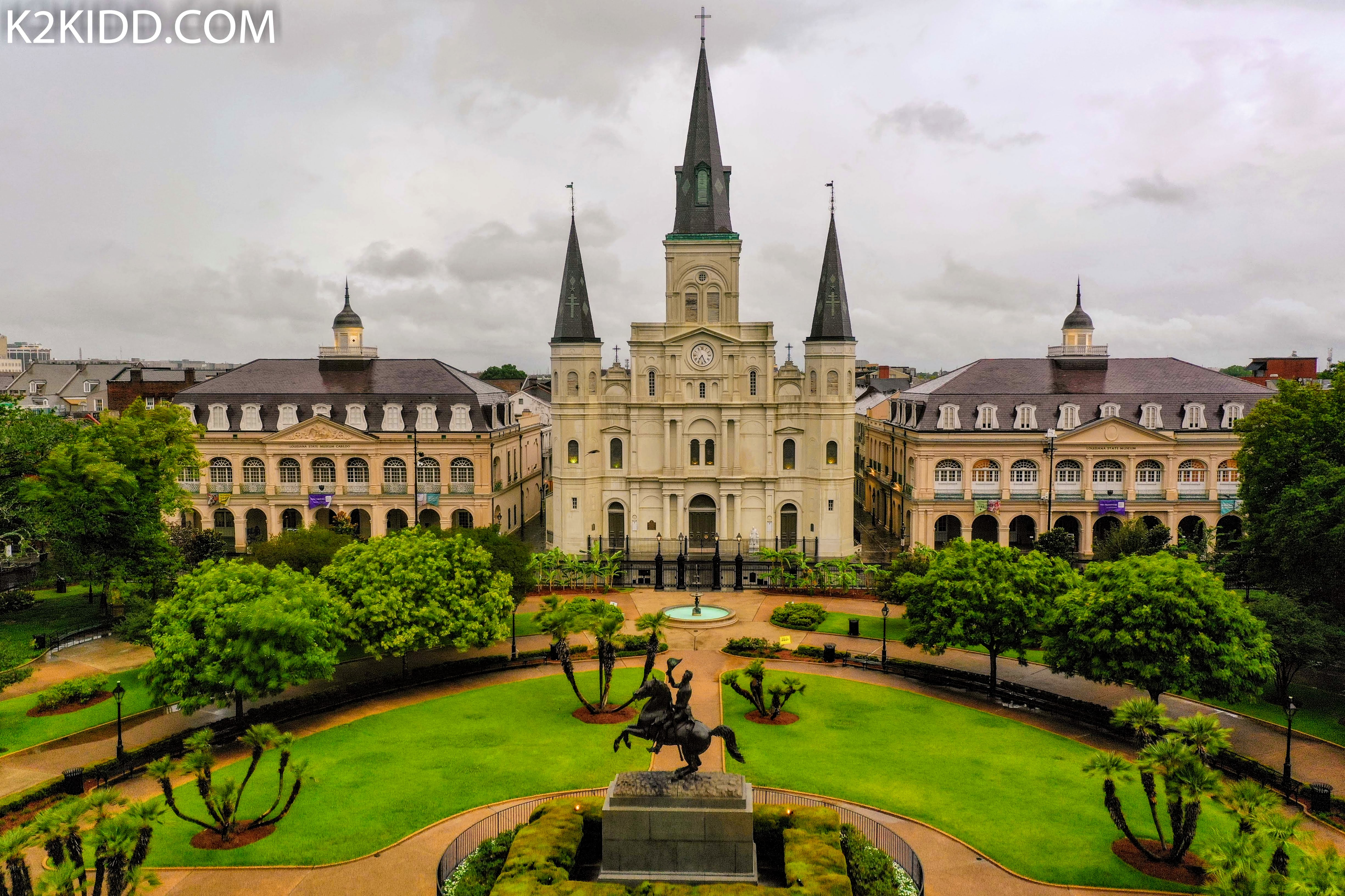 default